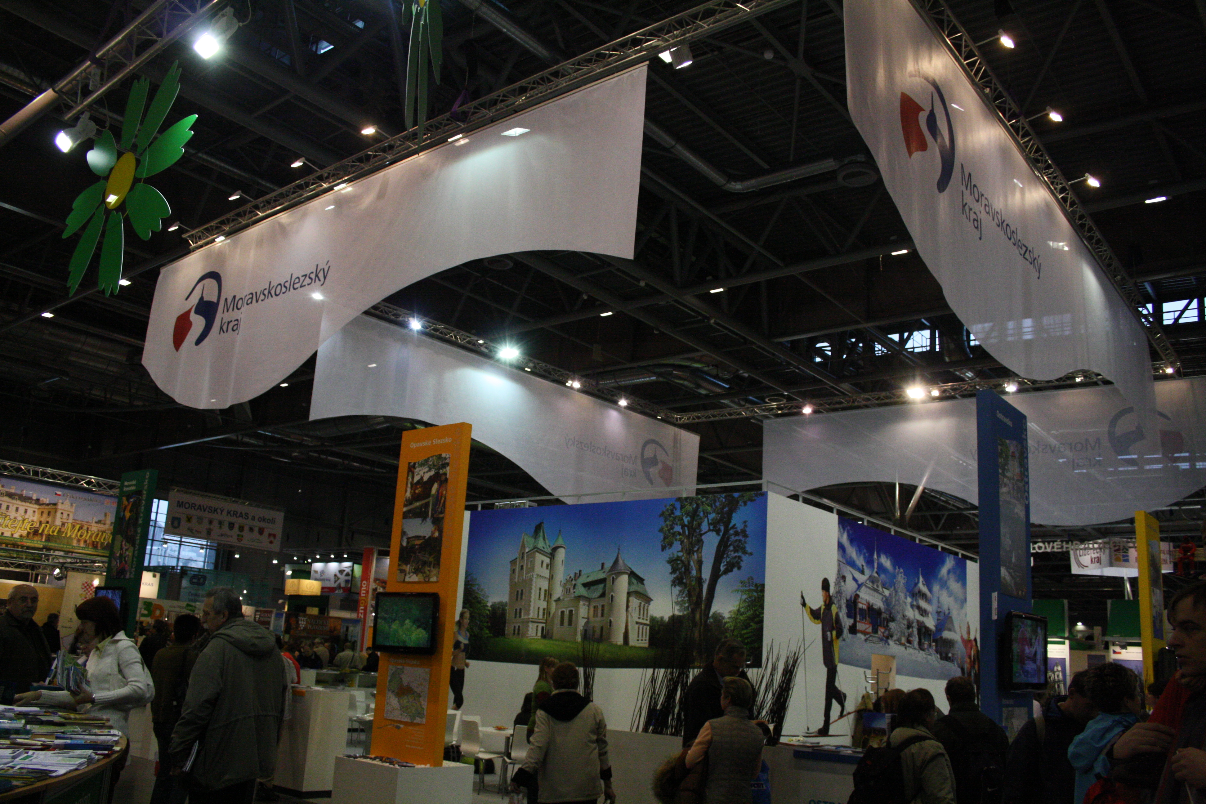 Presentation of various touristic destinations of Czech Republic.